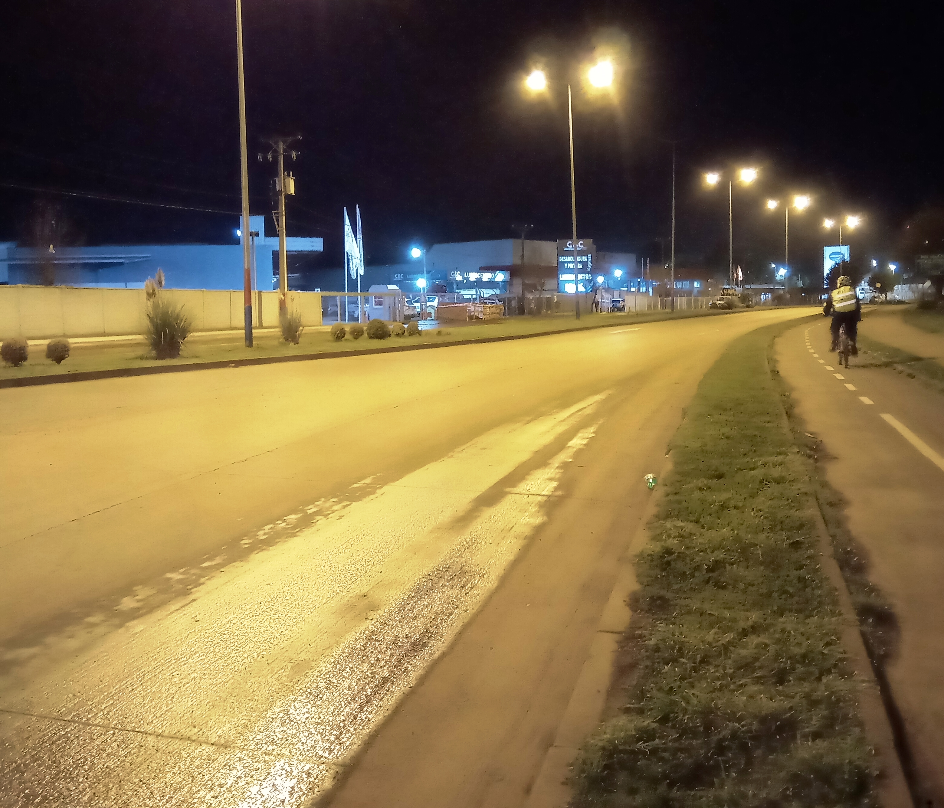 Guido Beck de Ramberga avenue, Padre Las Casas, Greater Temuco, Chile.